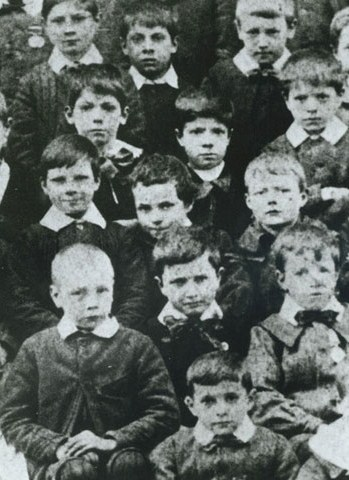 Charlie Chaplin, when he was 7 years old, at the Central London District School in Hanwell. Chaplin is in the centre of the third row.